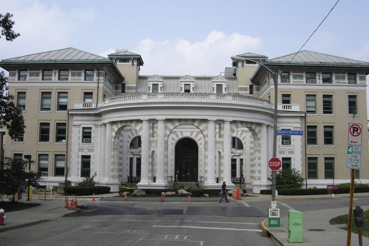 This is a sharealike license from Flickr user Herbert Spencer. See link at